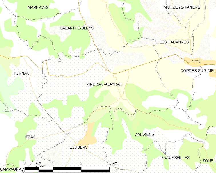 Map of French municipality Vindrac-Alayrac